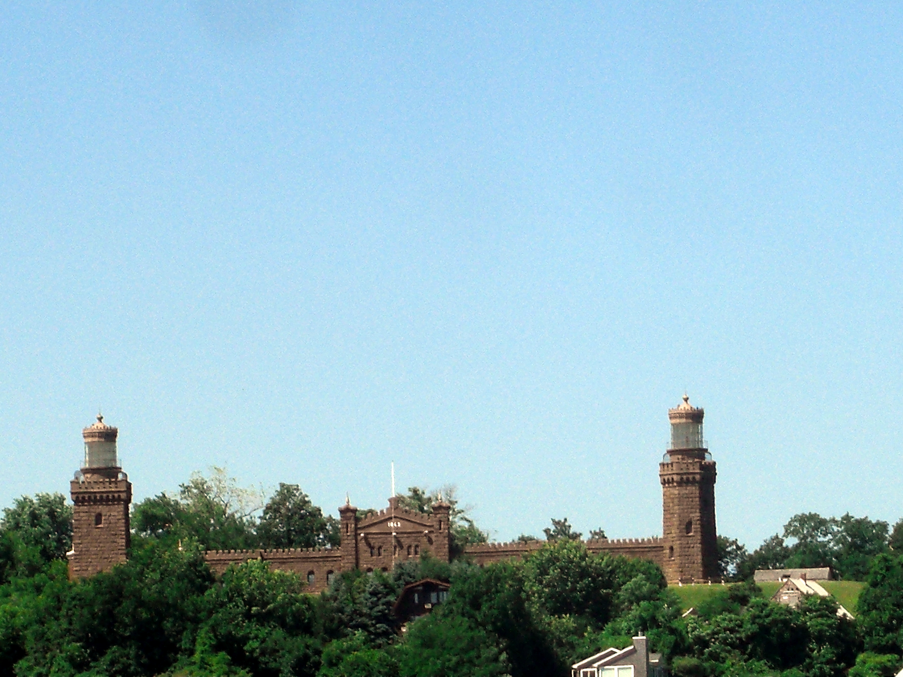 Navesink Twin Lights